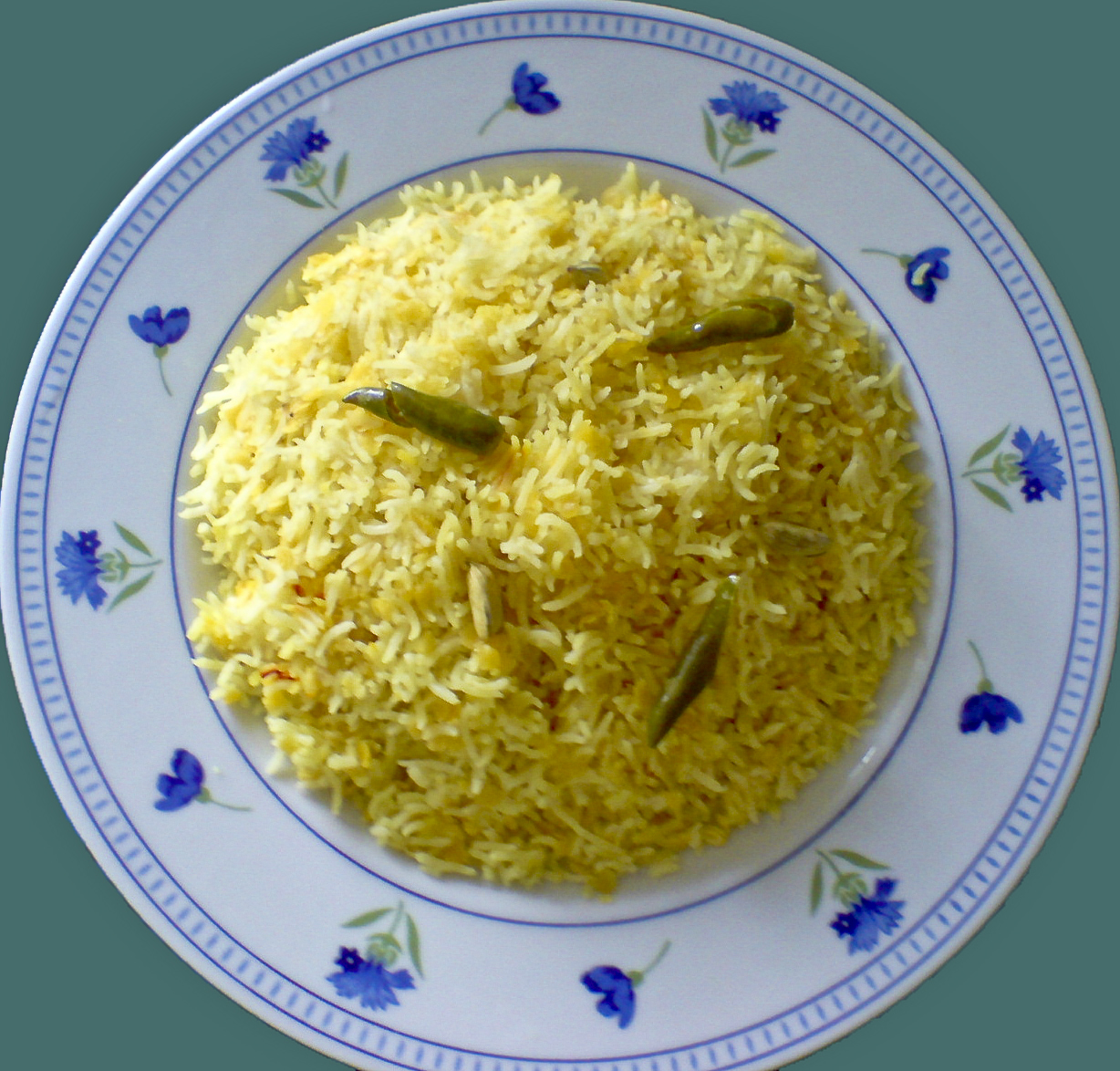 A plate of Khichuri, note vibrant yellow colour.